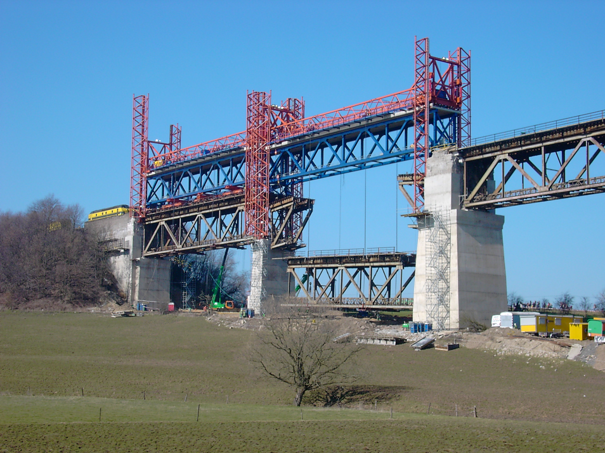 Viaduct of Moresnet (Belgium) under re-construction